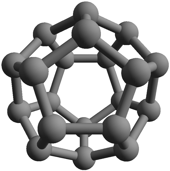 Molecular structure of the C20 fullerene (molecular modelling with the program Arguslab).